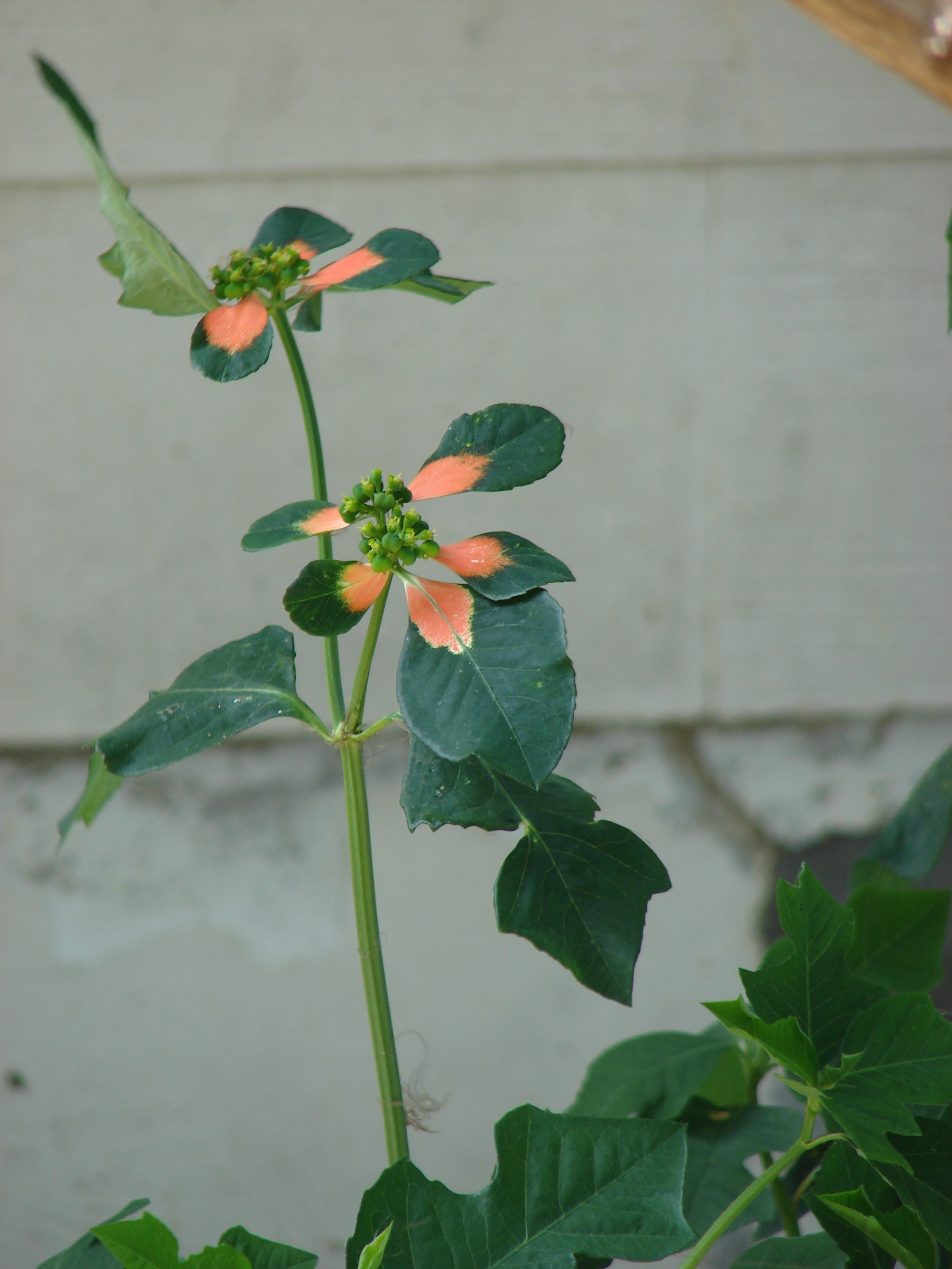 Euphorbia cyathophora (leaves and fruit). Location: Midway Atoll, Halsey Dr around residences Sand Island